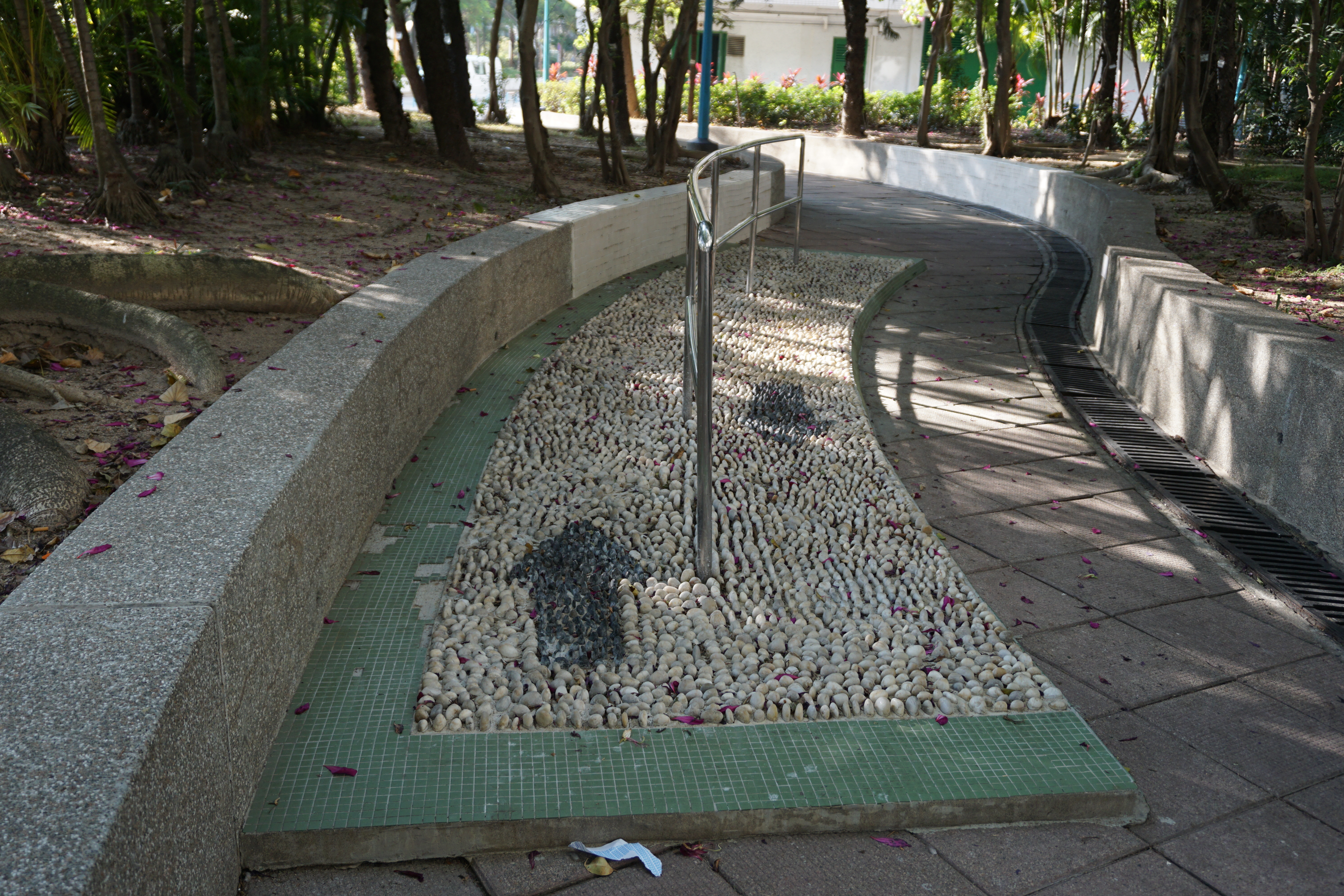 Kin Sang Estate in Tuen Mun, Hong Kong.